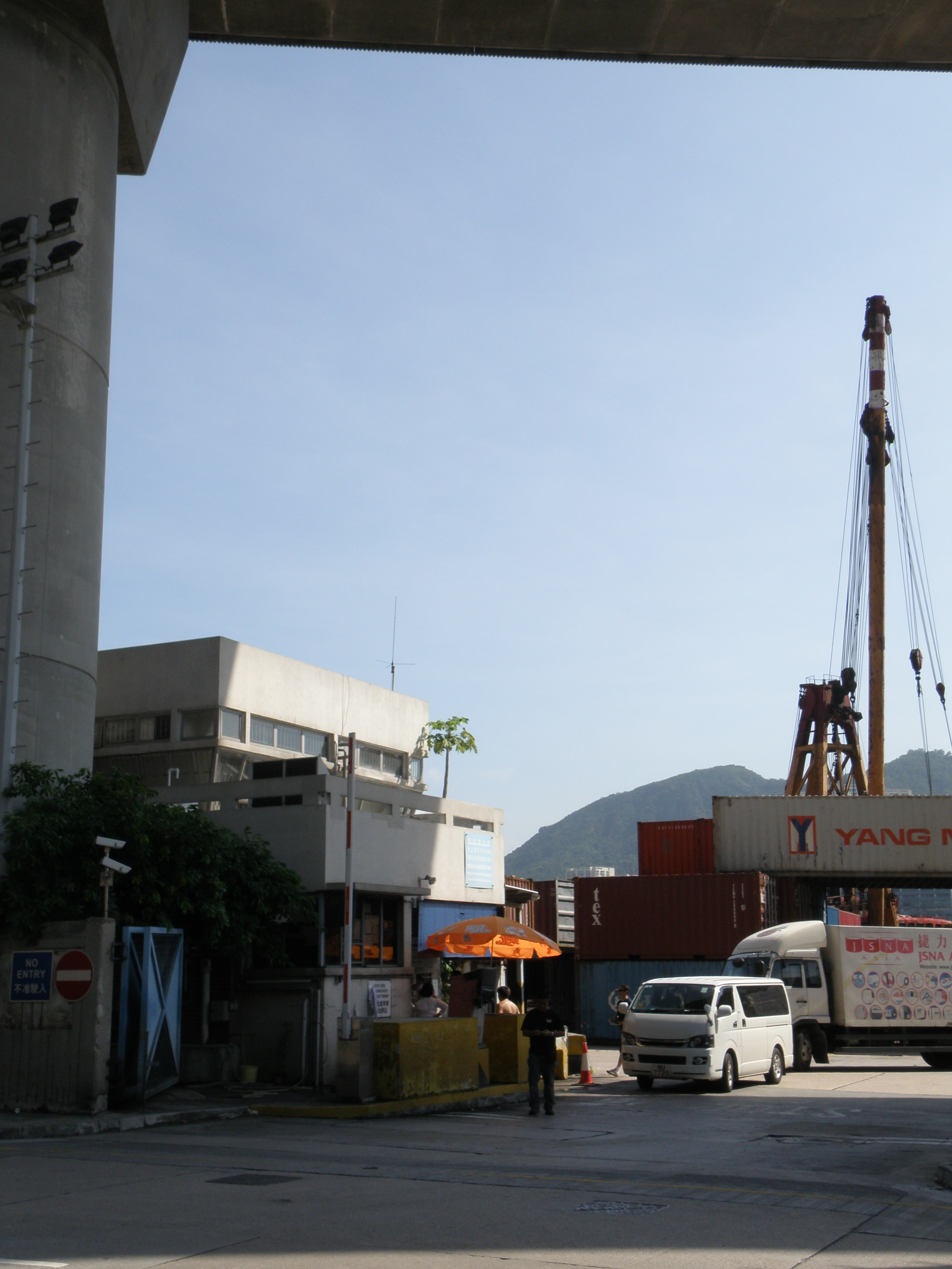 Marine Department Rambler Channel Public Cargo Working Area in Kwai Chung, Hong Kong.